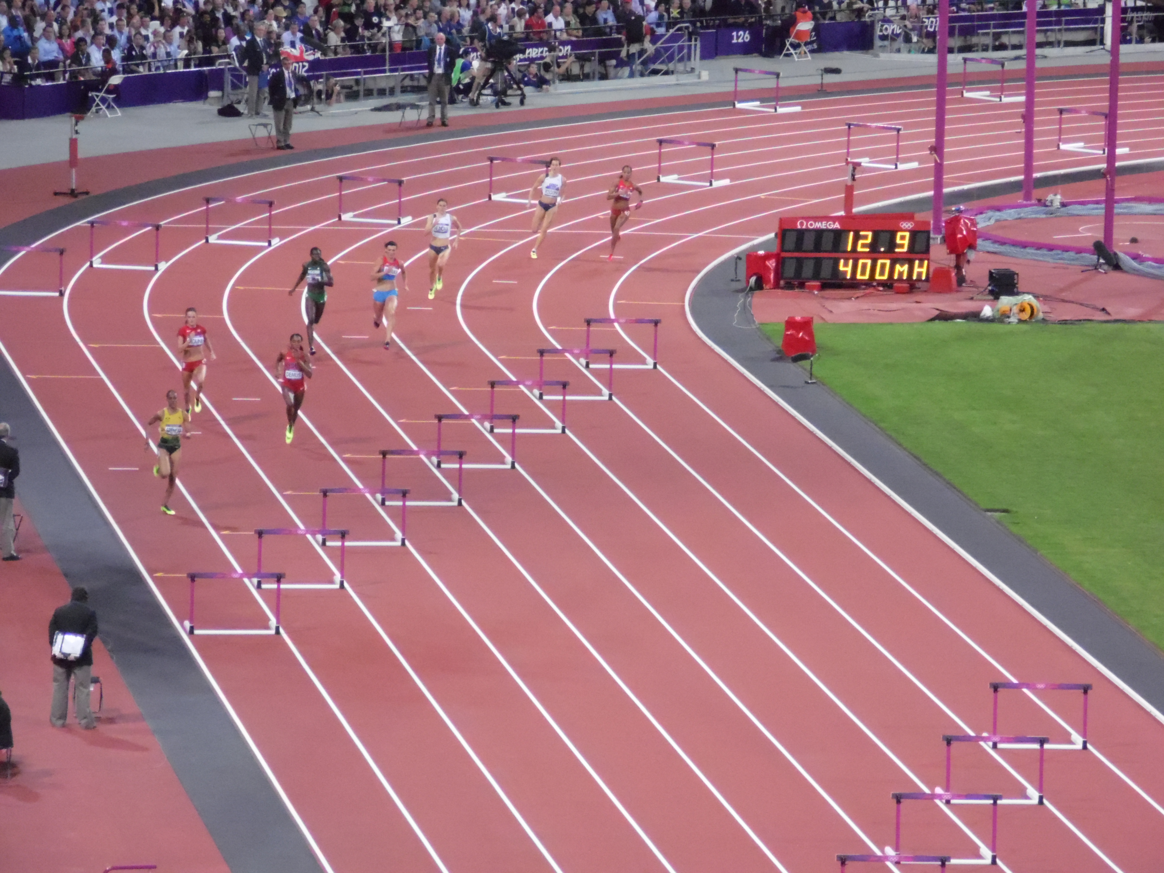 London 2012 Women 400m hurdles, Kaliese Spencer, Georganne Moline, Lashinda Demus, Muizat Ajoke Odumosu, Natalya Antyukh, Zuzana Hejnova, Denisa Rosolova, T'erea Brown